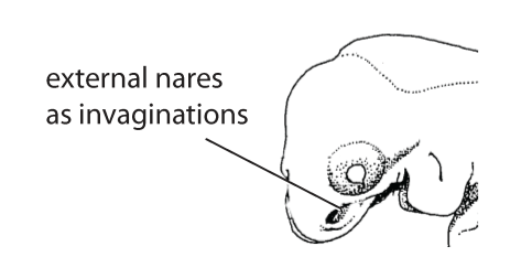 Standard Event System character depiction